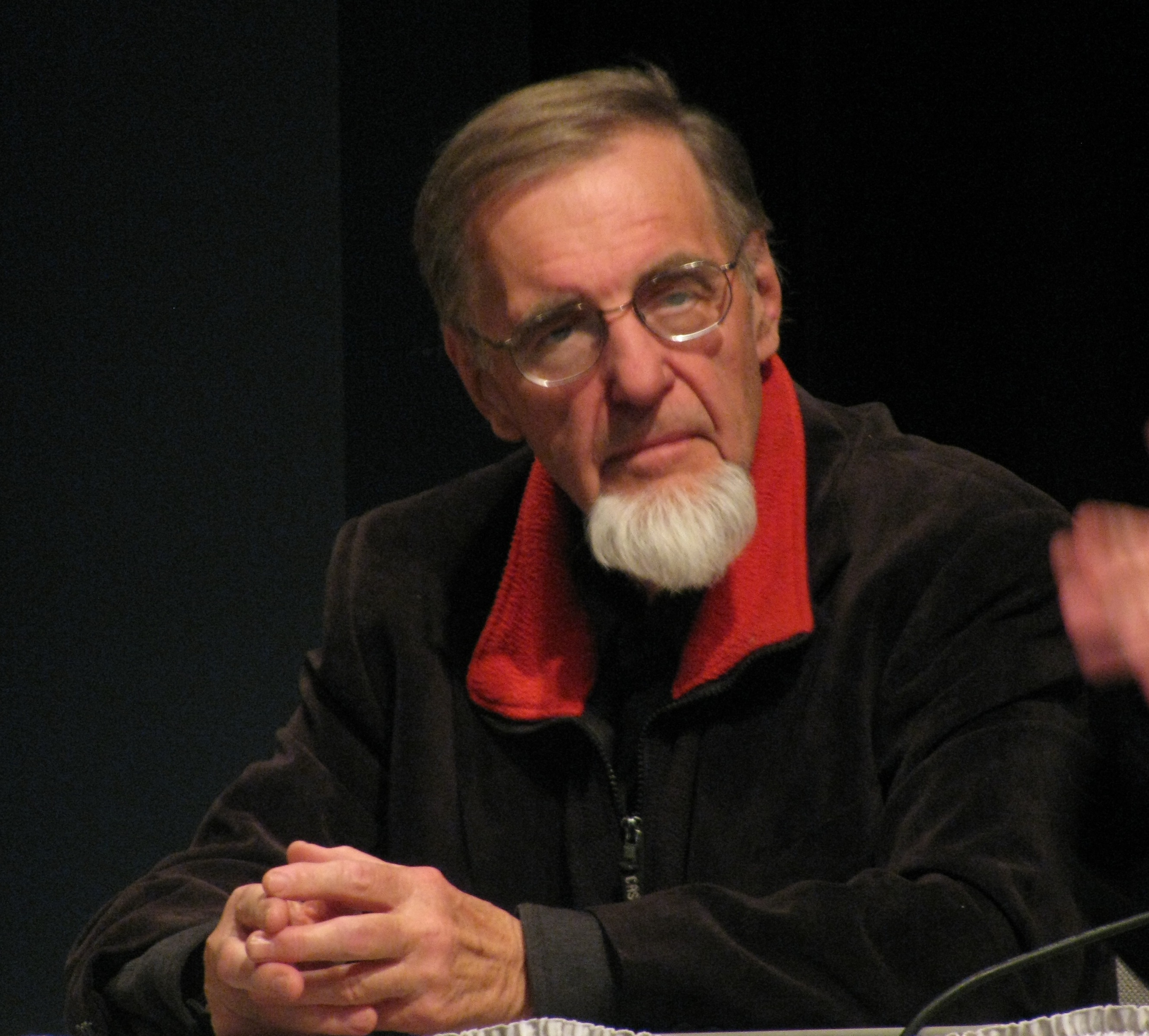 Woody Vasulka, at the Celebration of the 35th Anniversary of the Founding of Media Study (University at Buffalo)